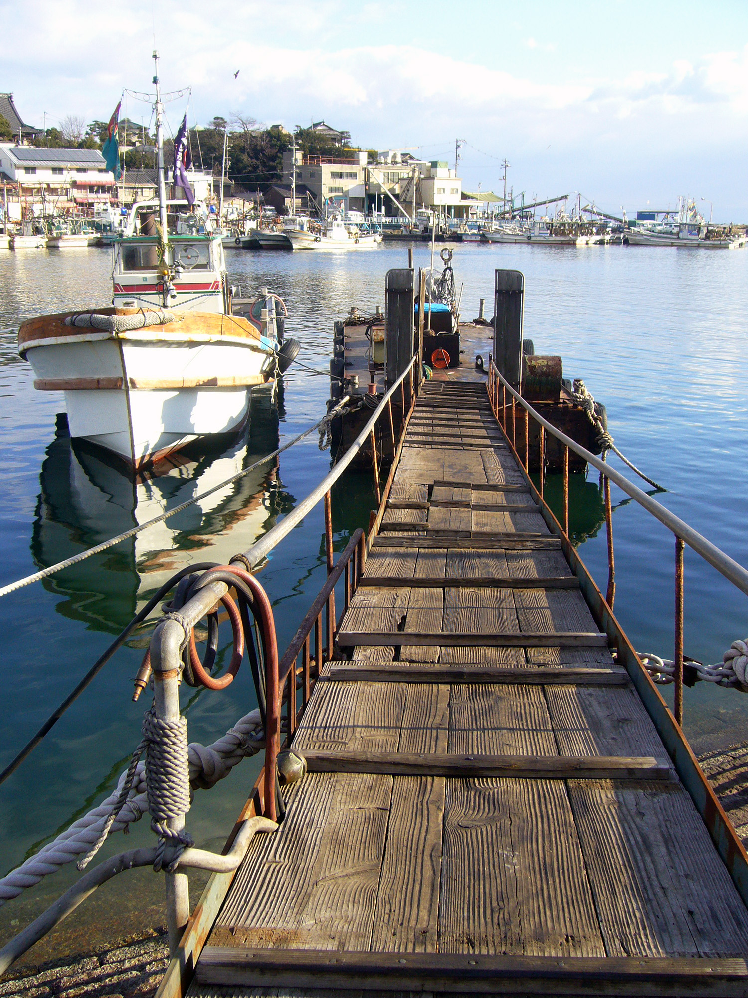 Tomonoura in Fukuyama, Hiroshima Prefecture, Japan